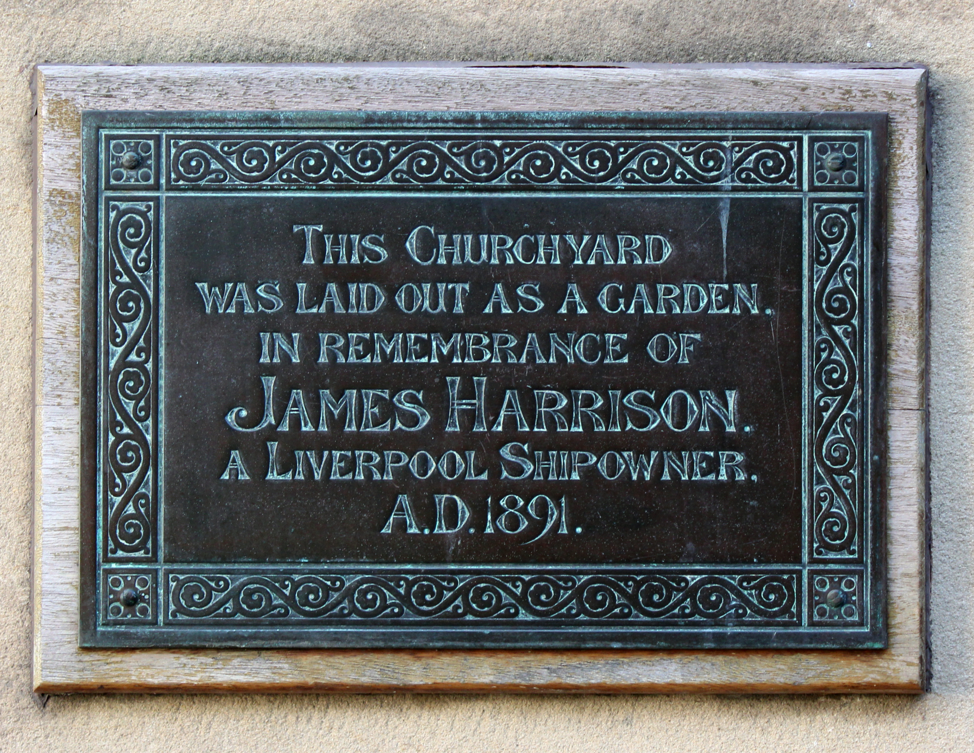 Close-up view